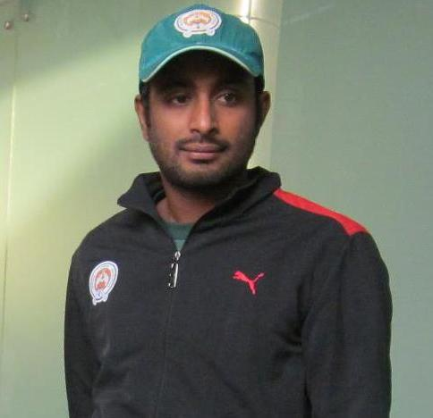 Indian cricketer Ambati Rayudu